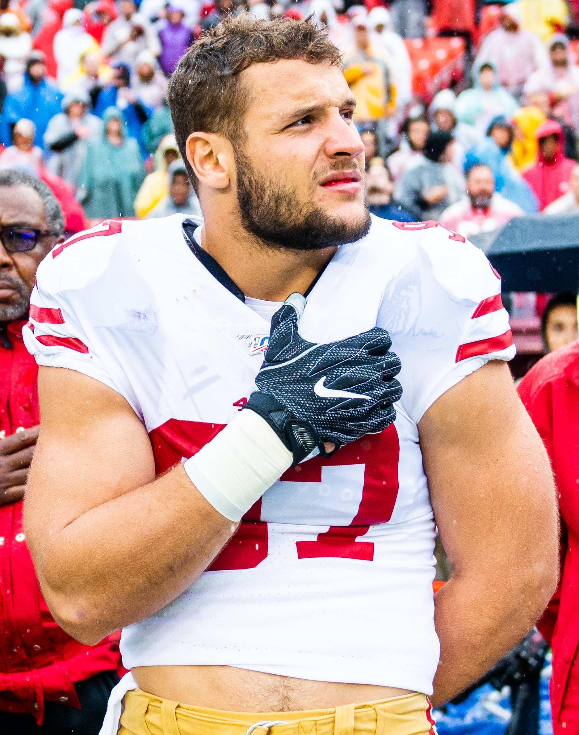 In 2019